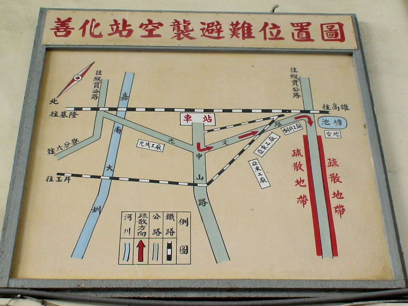 Map of Shanhua Station, Tainan, Taiwan